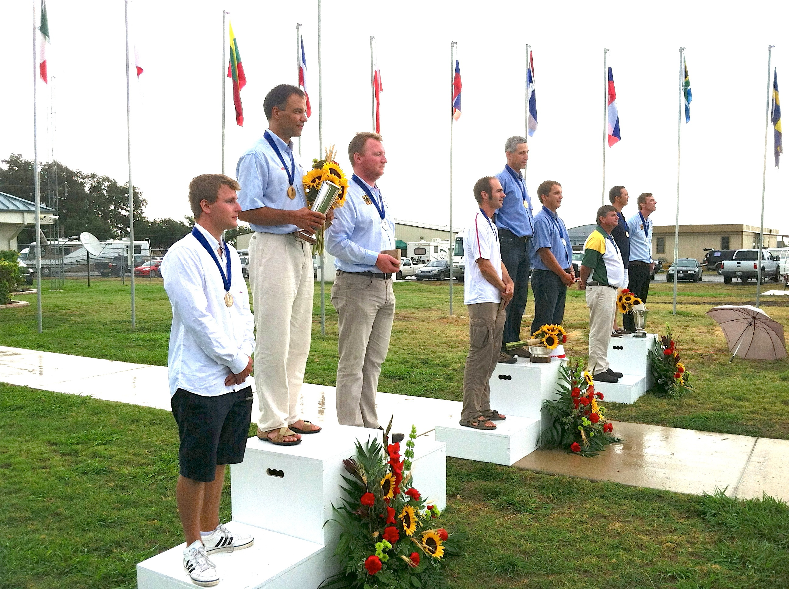 The FAI World Gliding Championships (2012 Uvalde, Texas, USA) winners